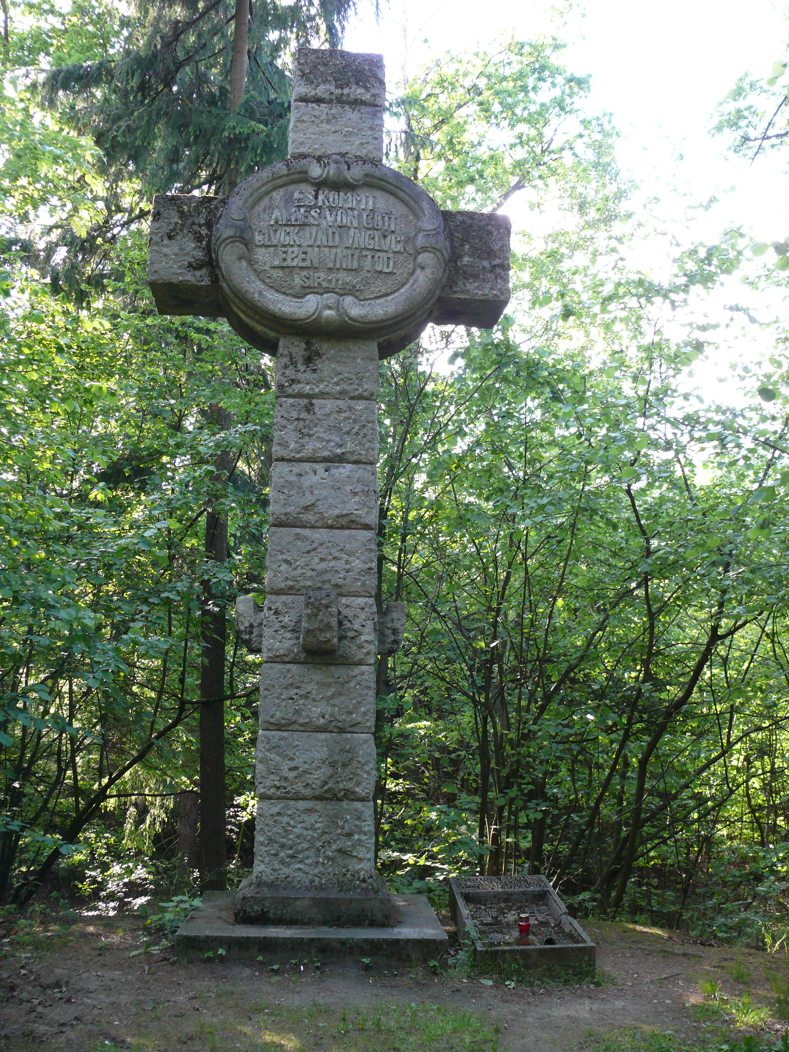 Bagno (Poland - Lower Silesian Voivodeship).